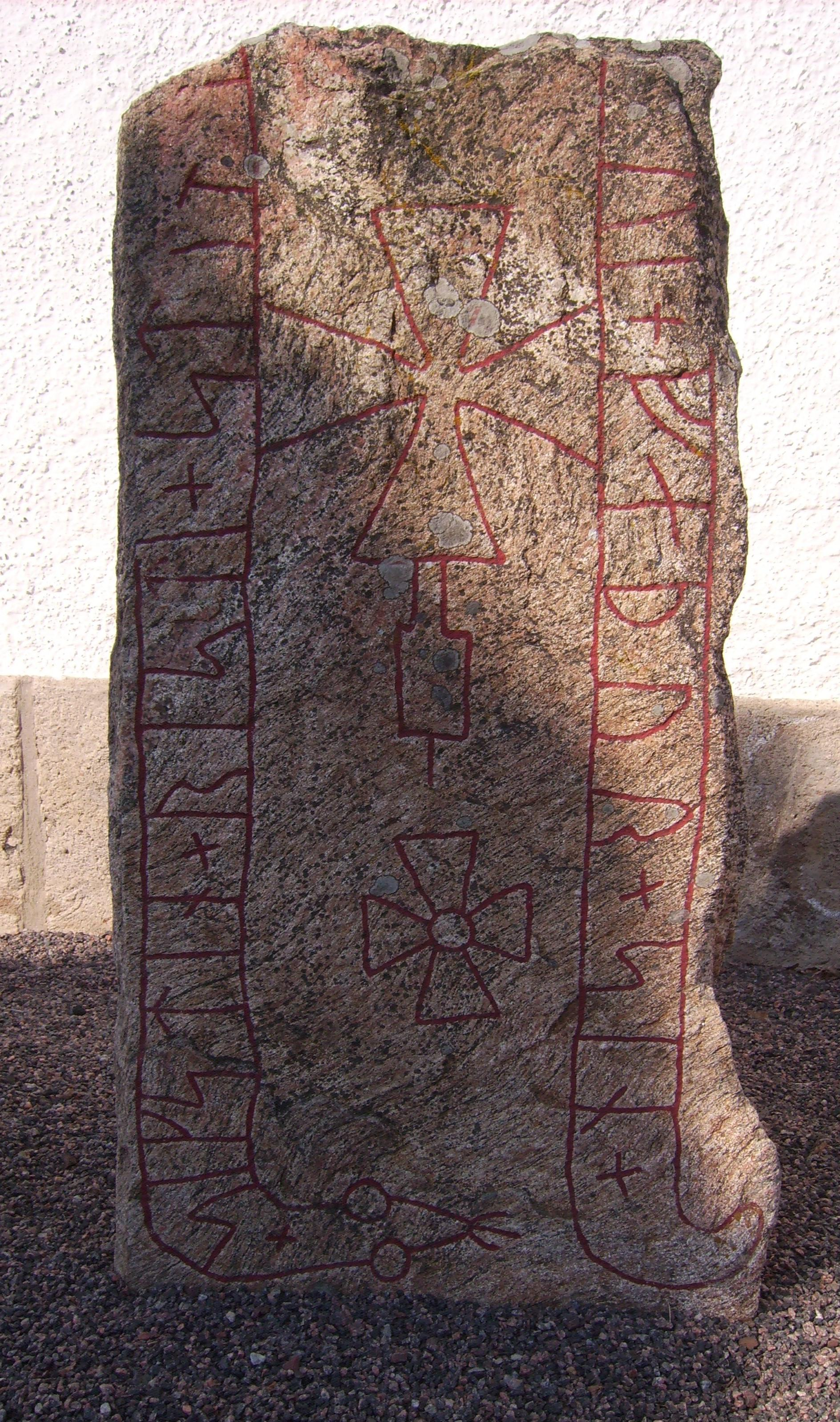 Runestone Ög 13, Konungsunds kyrka - The runestone text in swedish: “Sixten reste denna sten efter sin fader... (× sikstin × risti × sti[n × þinsa × iftiR × i]-ui × faþur × sin × - Sigstæinn ræisti stæin þennsa æftiR 'i-ui', faður sinn.)” The runestone text in english: ”Sigsteinn raised this stone in memory of 'i-ui', his father.”